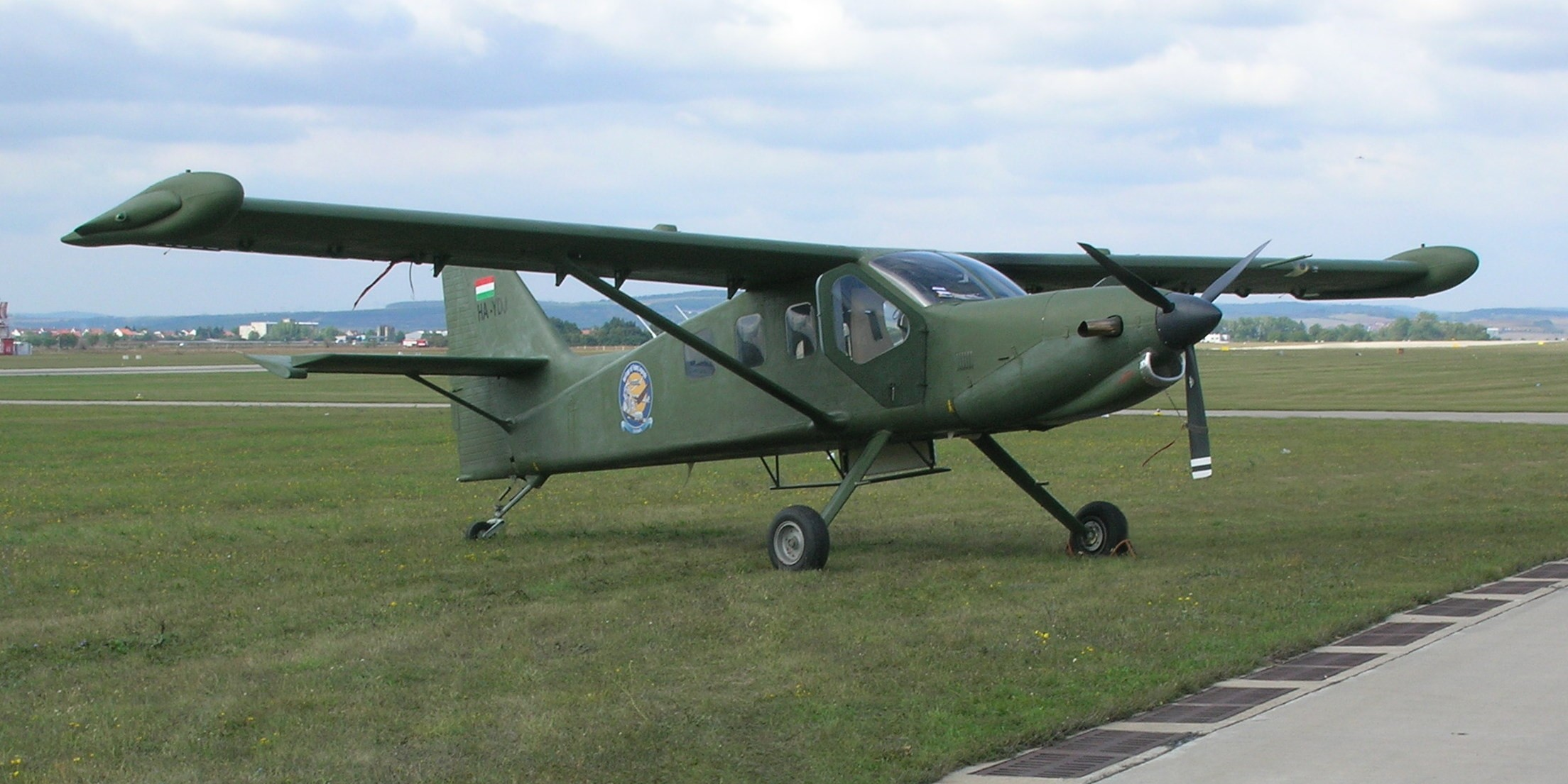 Technoavia SM-92 Turbo Finist. Photo taken during CIAF 2007, Brno.